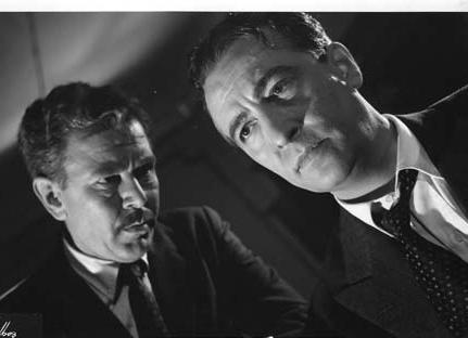 Luis Otero y Hugo del Carril